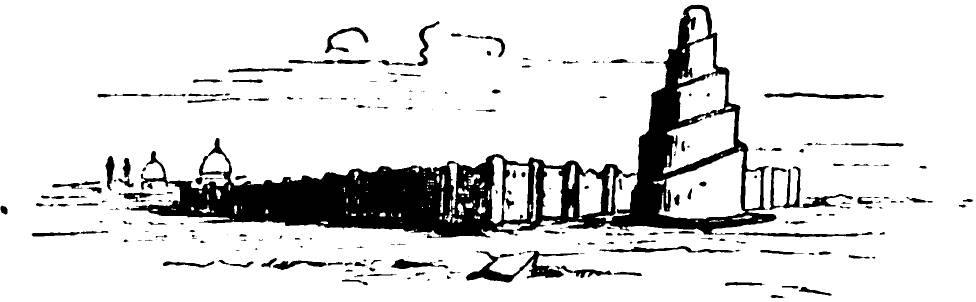 Extracted image from page 334 of the source book; image caption: „Sternwarte (?) von Samarra.“